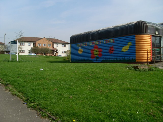 Ruchazie Community Centre Unusual building for a Community Centre. Viewed from Gartloch Road.